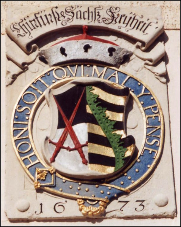 A coat of arms of the Elector of Saxony dated to 1673 in Stolpen (Saxony state, Germany), over the entrance to the Electoral Amtshaus. These arms are unique for Saxony, since they bear the emblem of the English Order of the Garter, a blue garter encircling the shield, with the motto Honi soit qui mal y pense (Shamed be he who thinks evil of it). Only two electors were made knights of the order, Johann Georg II in 1660, whose arms are represented, and Johann Georg IV in 1693.